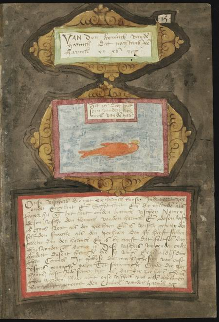 Page Dutch Visboeck Adriaen Coenen